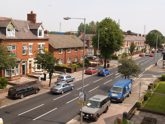 Warwick Road, Carlisle. The floodlights of Brunton Park are visible above the roofline on the North side of the street.